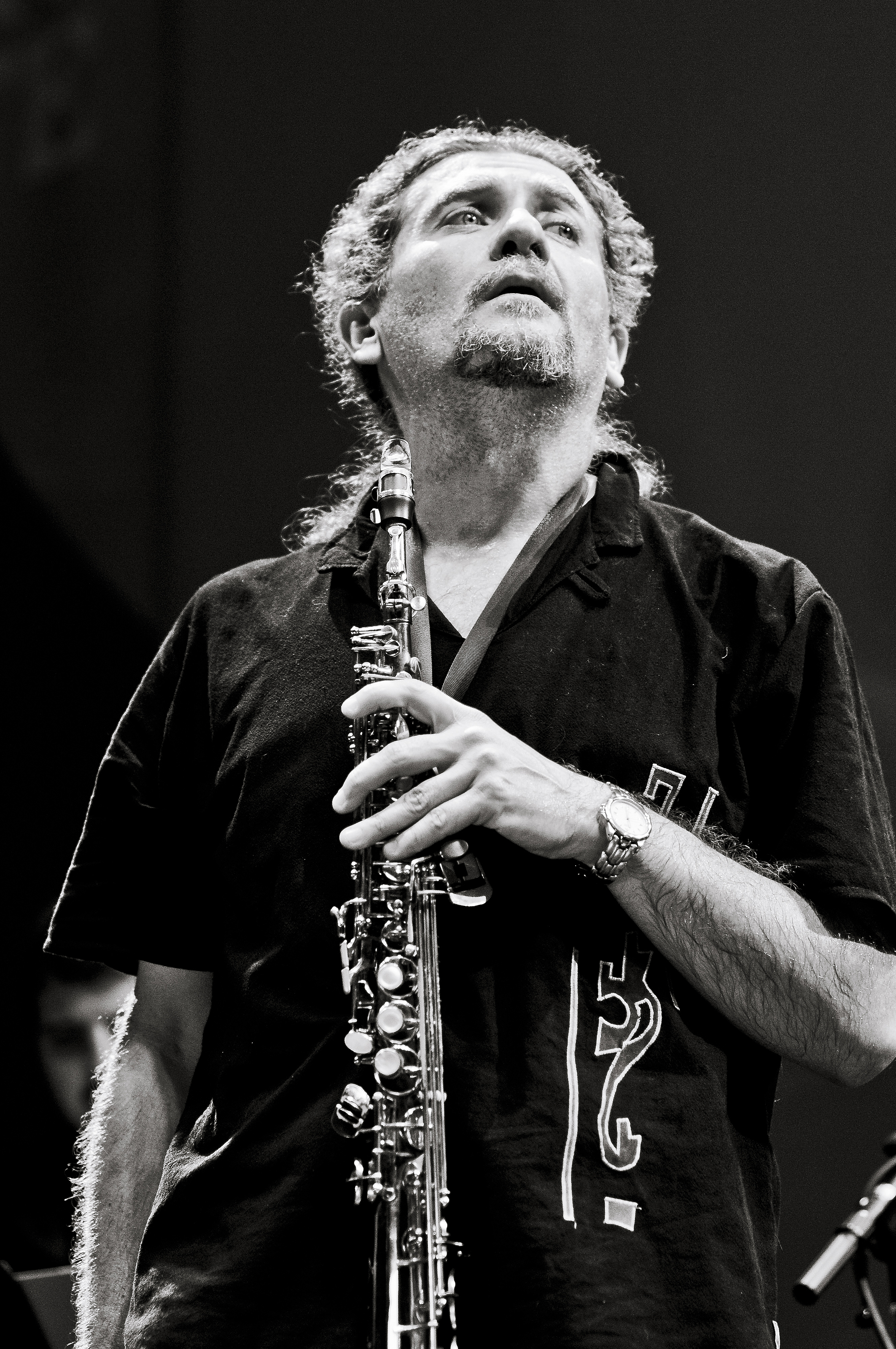 Javier Girotto